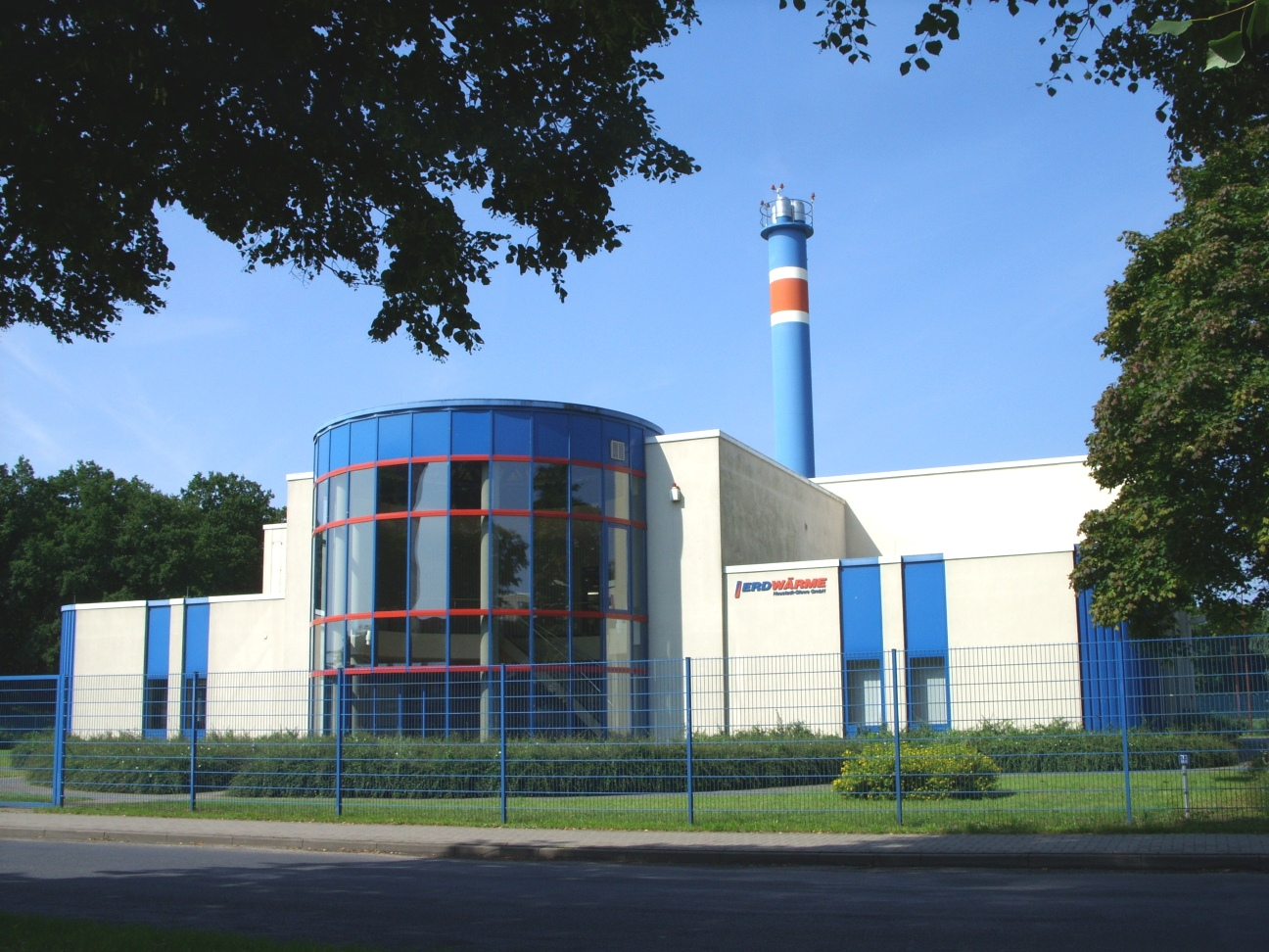 Geothermal heating plant in Neustadt-Glewe, Mecklenburg-Vorpommern, Germany